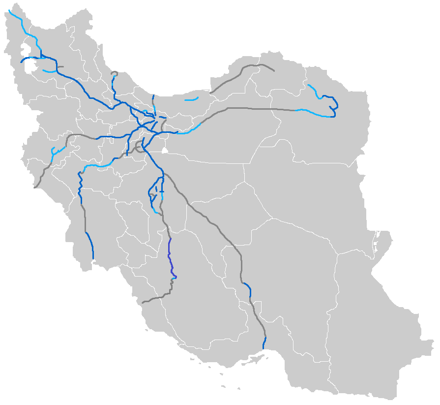 Iran Freeway network, current links, under construction links, approved links